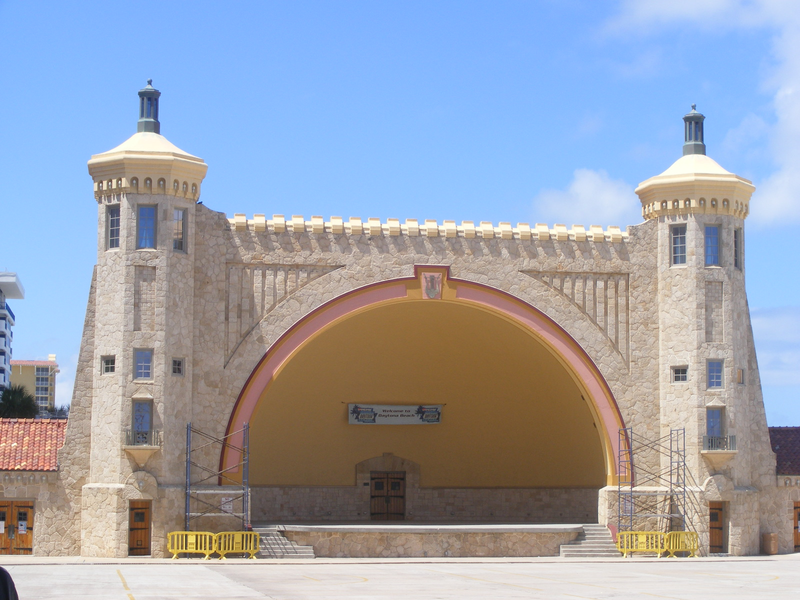 Daytona Beach Bandshell - beachside venue for concerts and other events.